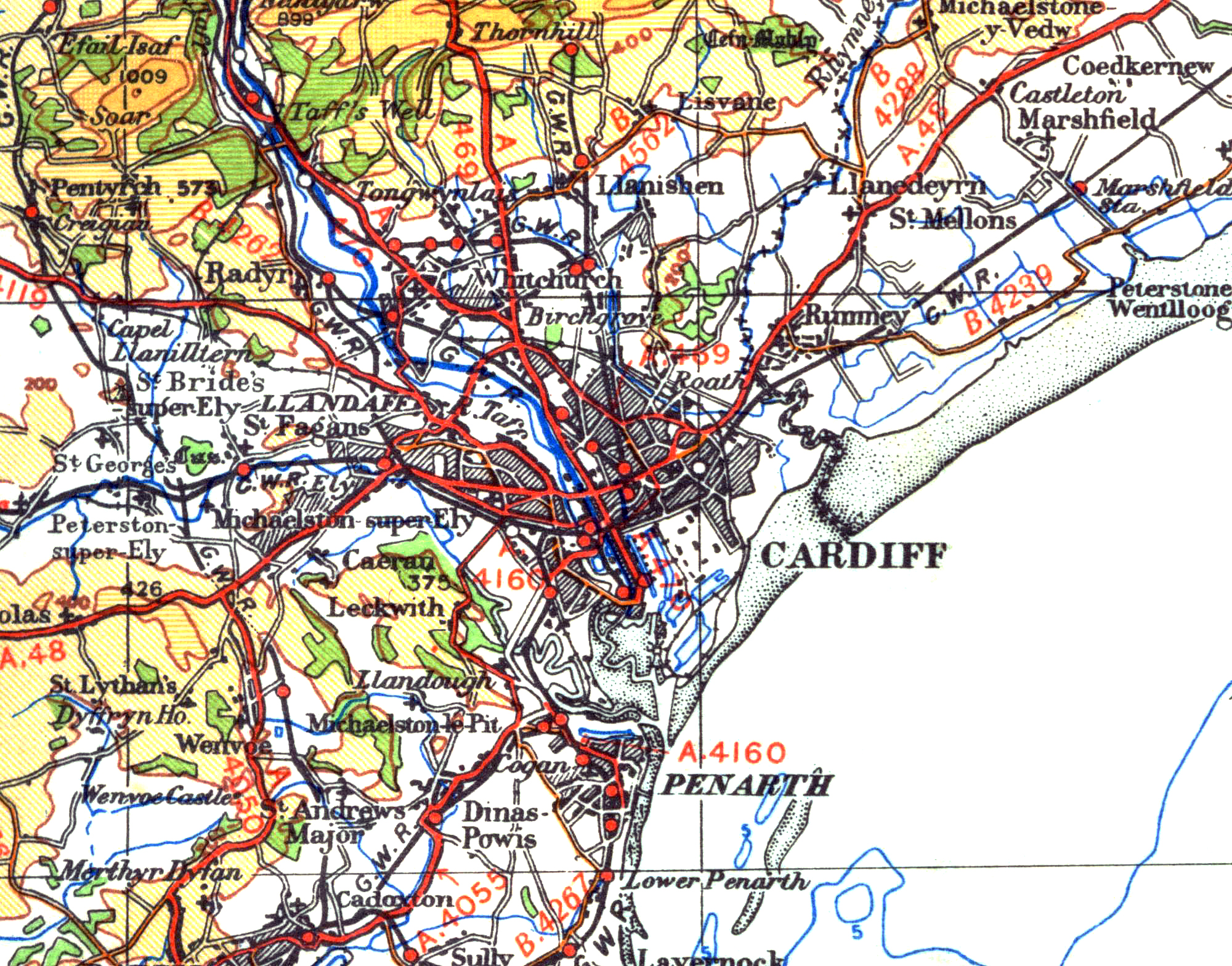 1/4 inch to the mile OS map of cardiff scanned at 600dpi